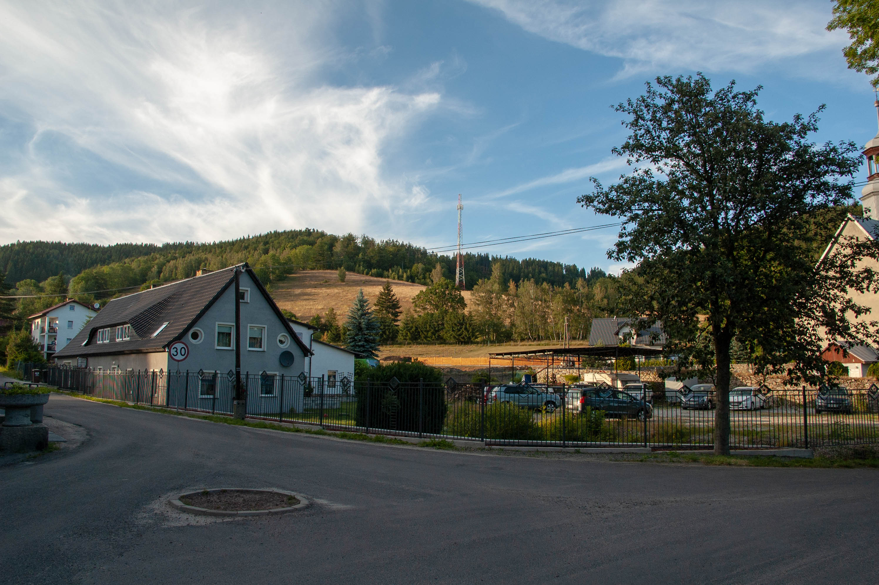 This photograph was created as a part of Wikiexpedition Lower Silesia, a project supported by Wikimedia Poland grant.